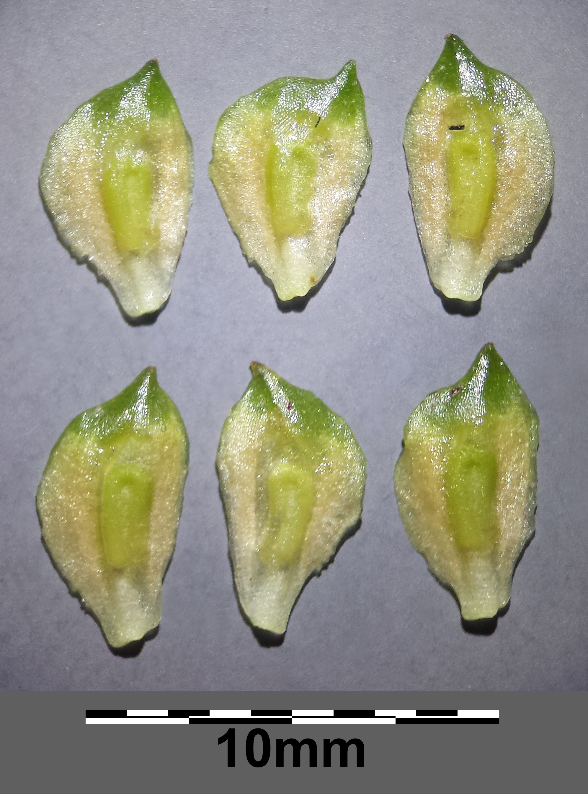 Fruitlets Taxonym: Sagittaria sagittifolia ss Fischer et al. EfÖLS 2008 ISBN 978-3-85474-187-9 Location: Neue Donau, district Korneuburg, Lower Austria - ca. 160 m a.s.l. Habitat: shore